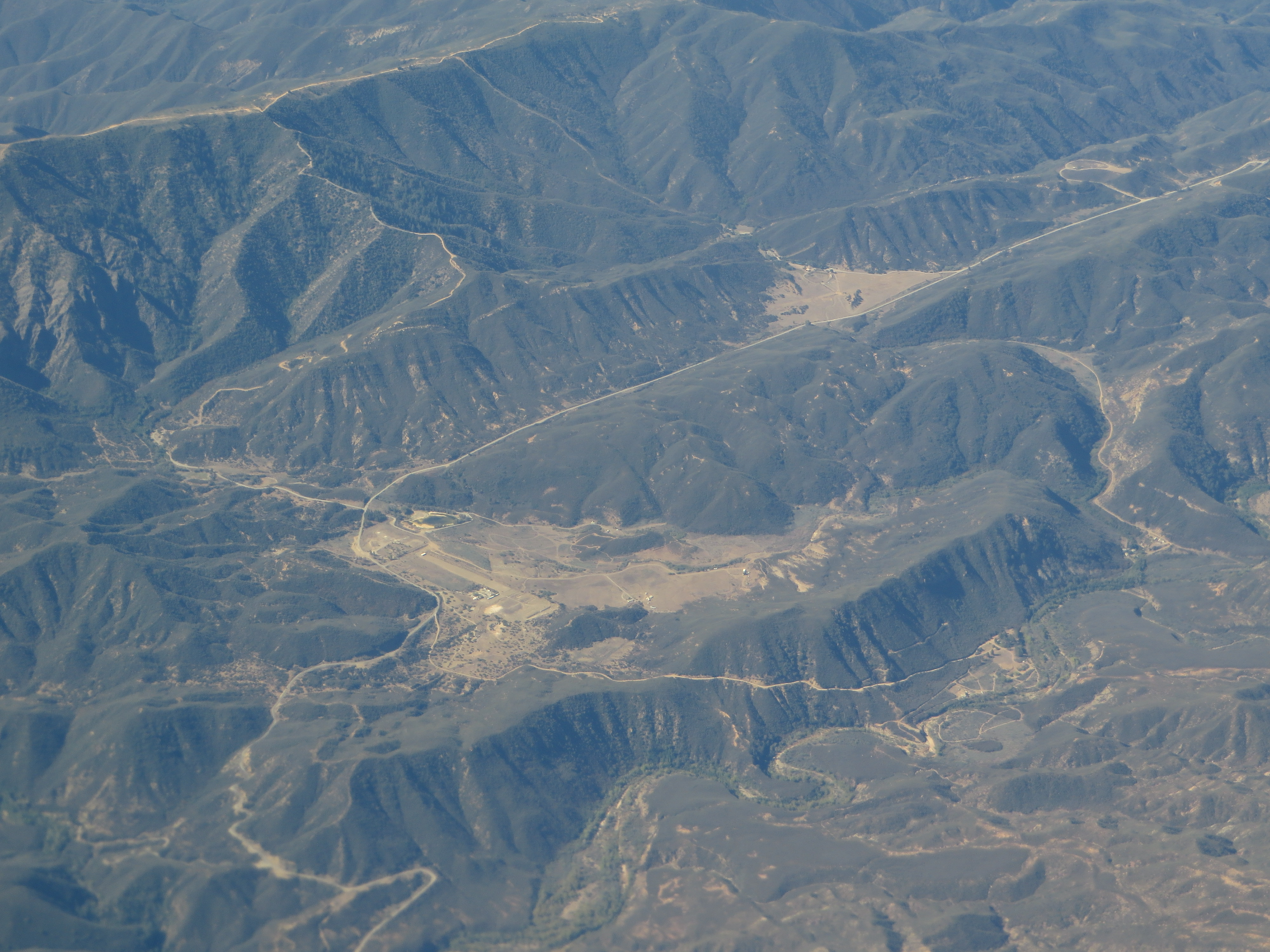 The Topatopa Mountains are a mountain range in Ventura County, California, north of Ojai and Santa Paula. They are part of the Transverse Ranges of Southern California. The Topatopa Mountains lie in an east-west direction east of the Sierra Madre Mountains, and west of the Sierra Pelona Mountains. The range reaches an elevation of 6,716 feet (2,047 m) at Hines Peak, about six miles north of Thomas Aquinas College. Snow frequently falls on the high peaks during winter. The Topatopa Mountains are within the southern Los Padres National Forest. The Sespe Wilderness Area, and the Sespe Condor Sanctuary, are primarily within the Topatopa Mountains and foothills. They are part of the home range of the endangered California condor. The habitat is of the California montane chaparral and woodlands ecoregion. Sespe Creek flows through the range, creating Sespe Gorge, with Riparian habitats of willows and woodlands.